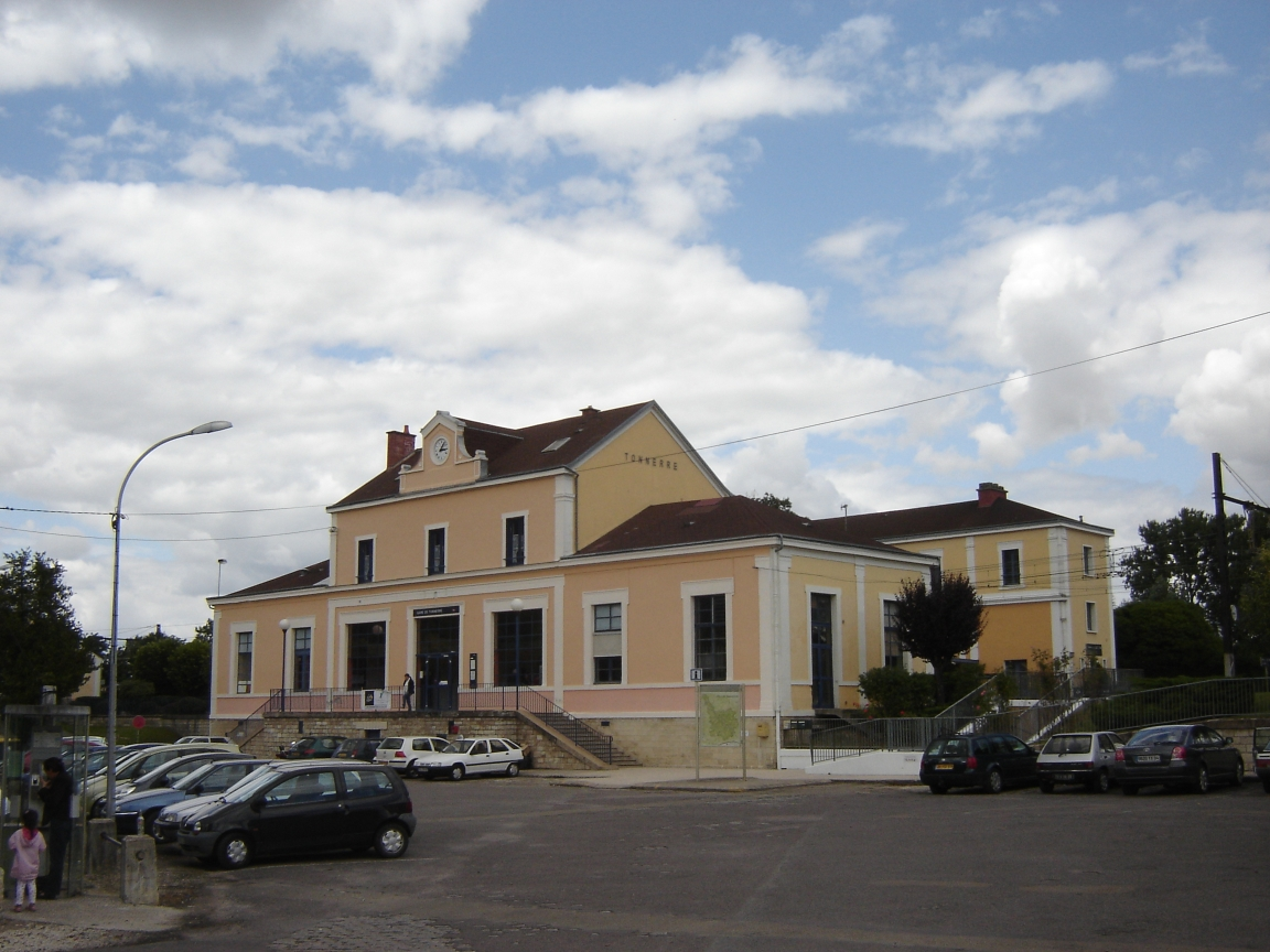 Train station of Tonnerre, Yonne, France